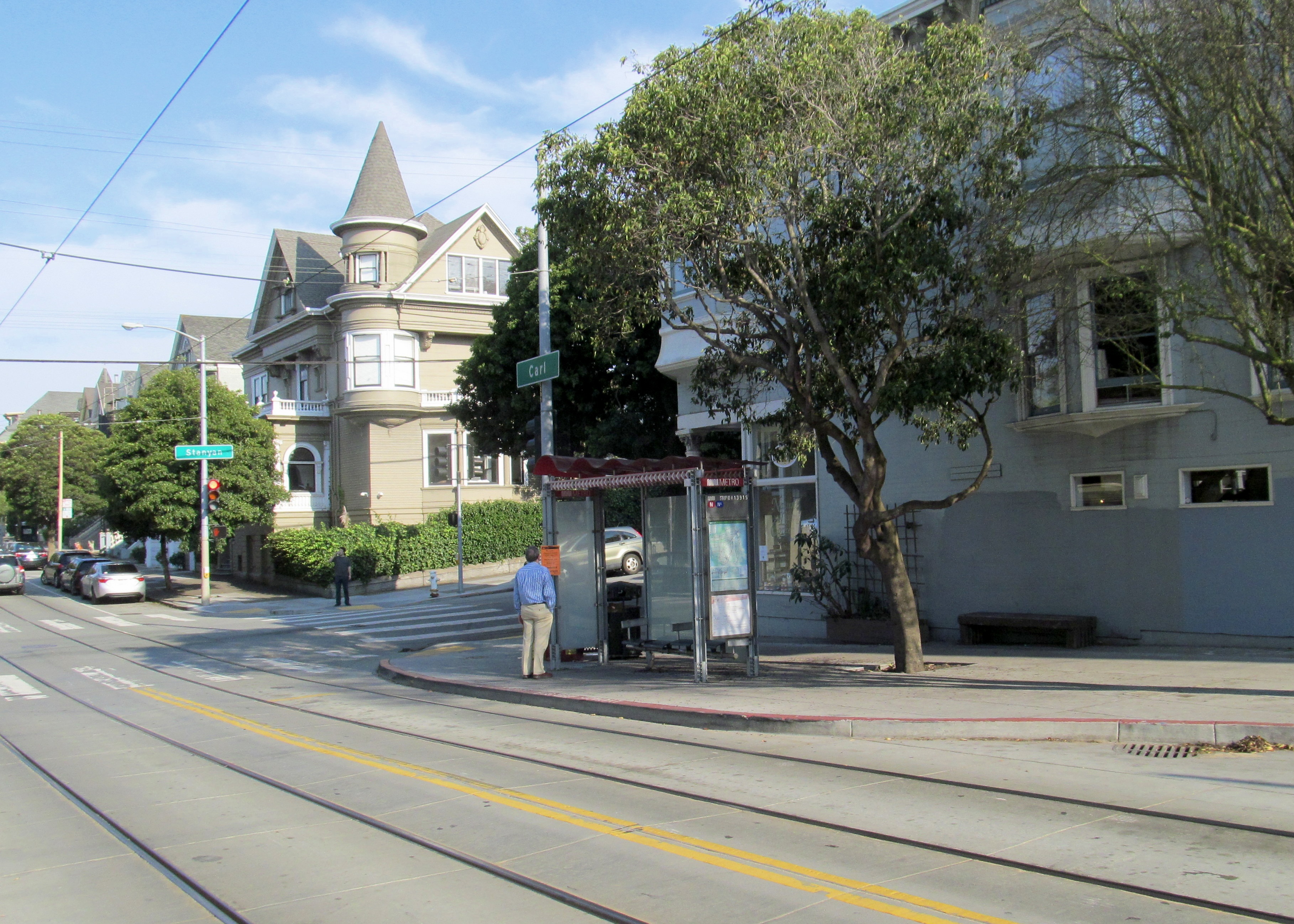 The 2012-built bulbout at Carl and Stanyan in September 2017